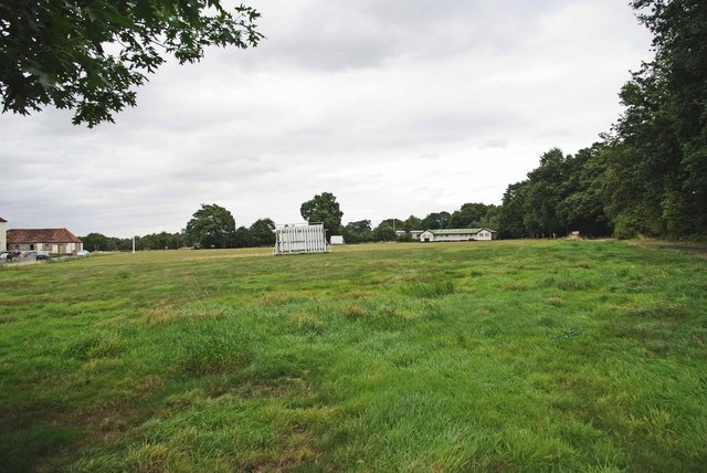 Village Green Navestock Side The village green in Navestock Side includes a Cricket pitch. The Green Man on the left is closed I hope only for refurbishment but that is a fairly vain hope these days.